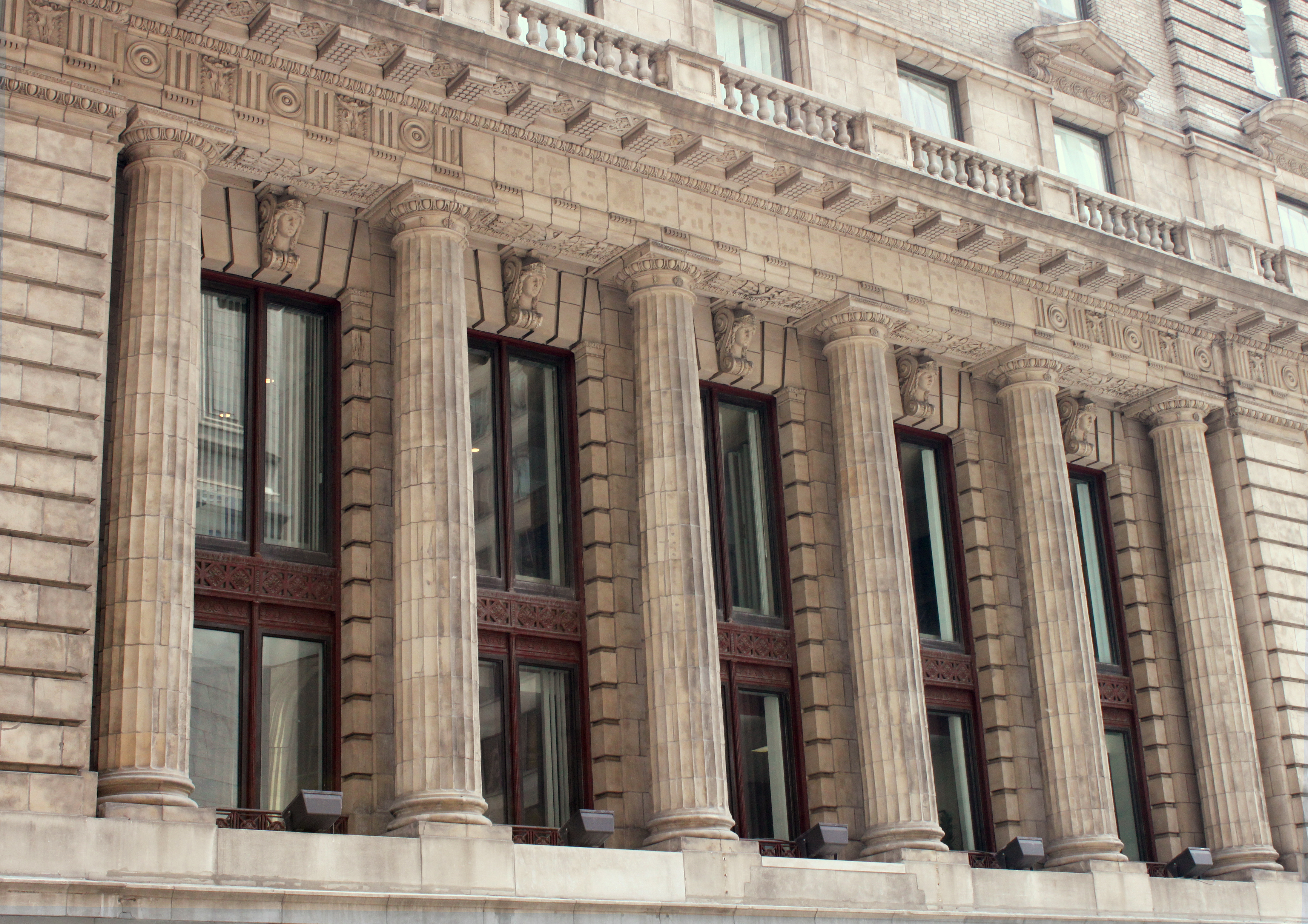 The C.D. Howe Institute's national offices at 67 Yonge Street, Toronto.